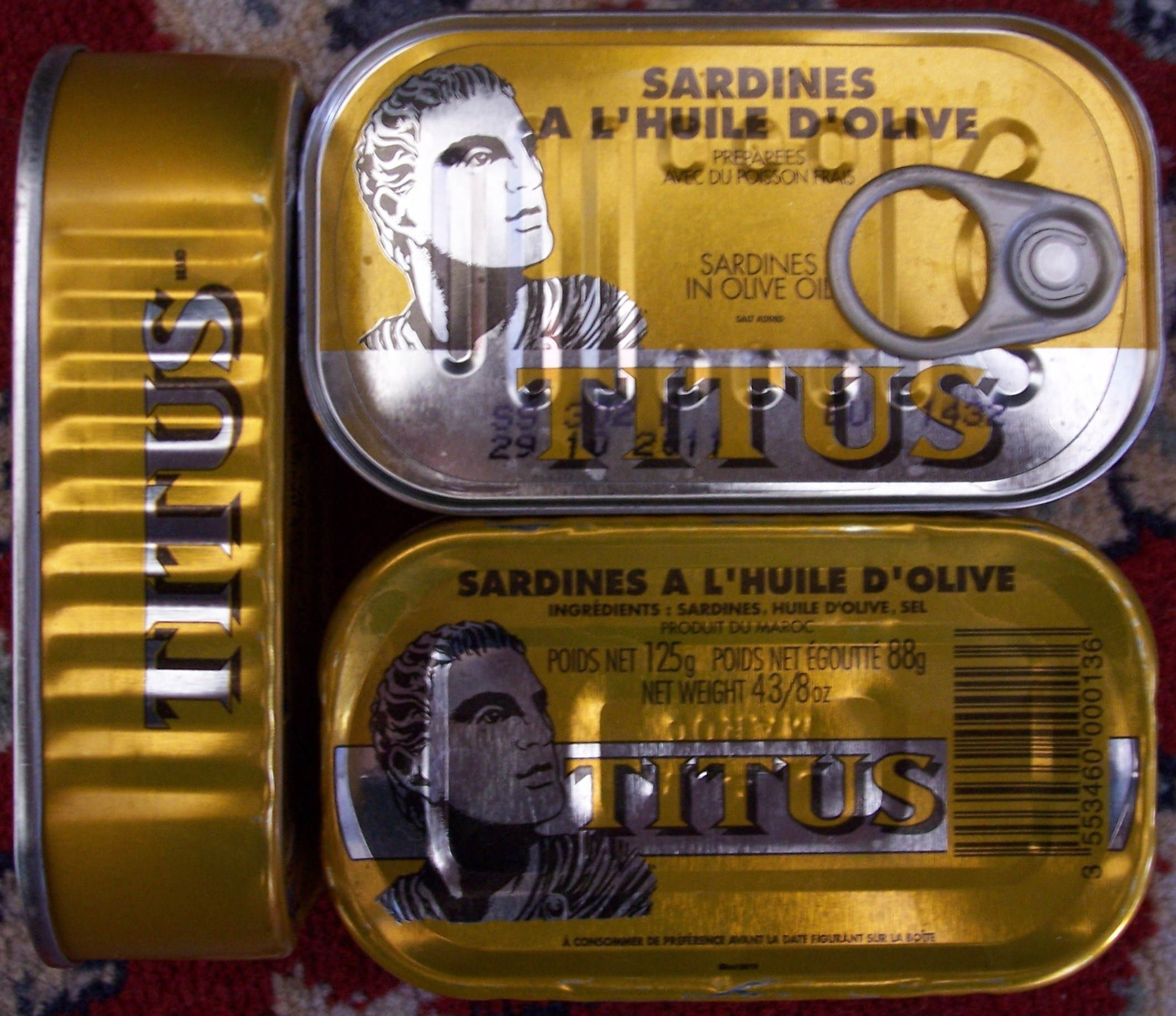 Sardines or pilchards "TITUS"